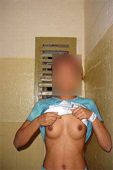 3:44 a.m., Oct. 29, 2003. Female poses for picture. It was believed that CPL GRANER took this picture in the series to follow, with the female in a number of poses. All caption information is taken directly from CID materials. U.S. Army / Criminal Investigation Command (CID). Seized by the U.S. Government.